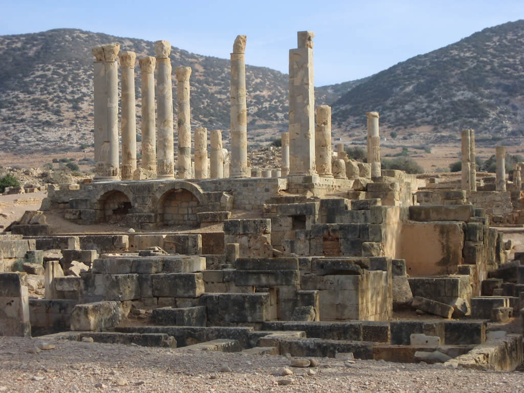 The ruins of a palace at Ptolemais, east of Benghazi.